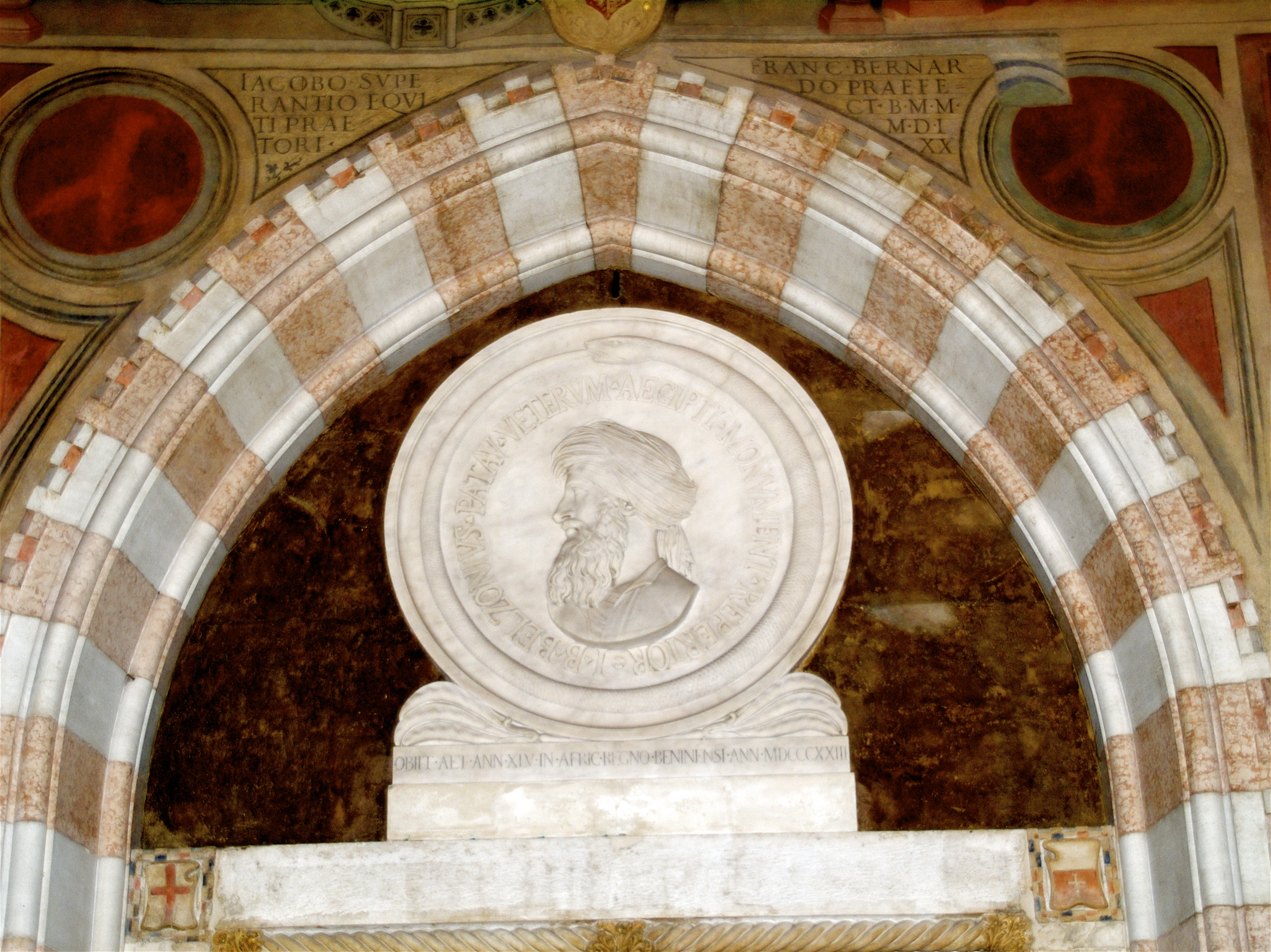 Palazzo della Ragione, Padova, Italy. Low relief of Giovanni Battista Belzoni, by Rinaldo Rinaldi (1793-1873).